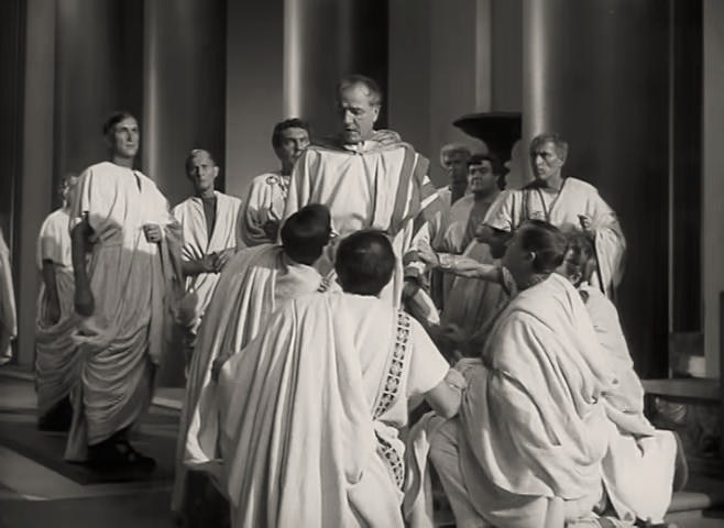 Louis Calhern (center) in Julius Caesar - trailer (cropped screenshot)